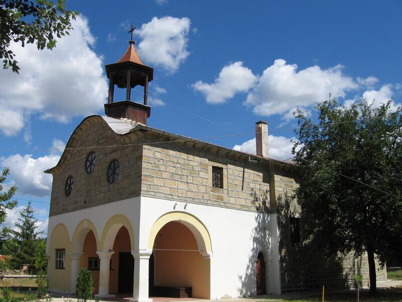 Църква